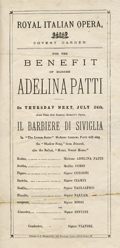 The poster in the Royal Italian Opera in Covent Garden with the appearance of the tenor Alessandro Bettini in the opera Il barbiere di Siviglia that caused the landmark contract law case Bettini v Gye